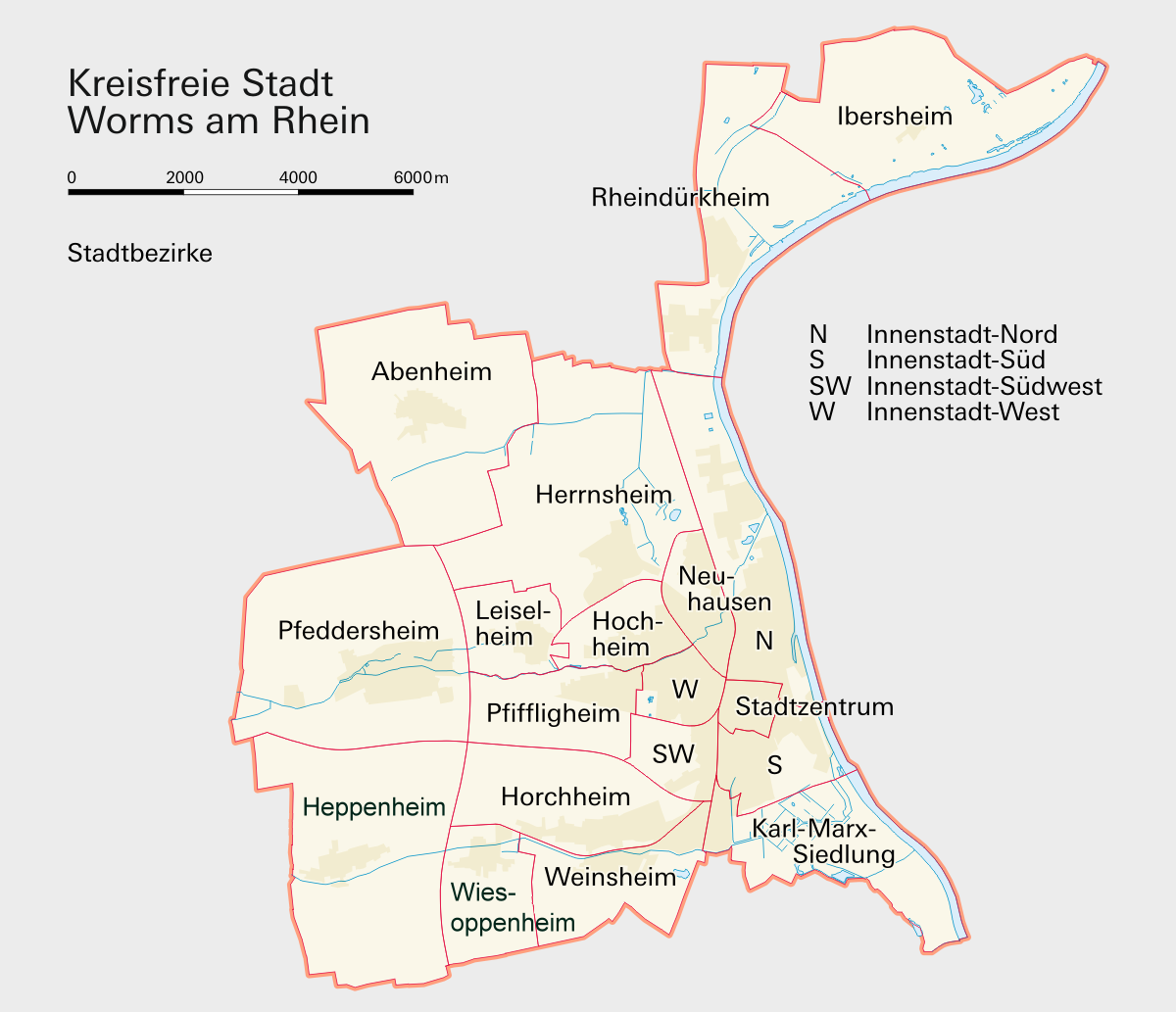 Districts of the City of Worms